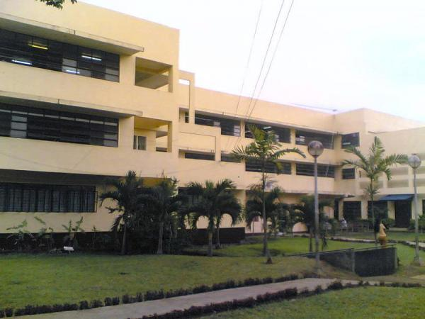 Bukidnon State University-The College of Teacher Education Complex, Bukidnon State University, Malaybalay City